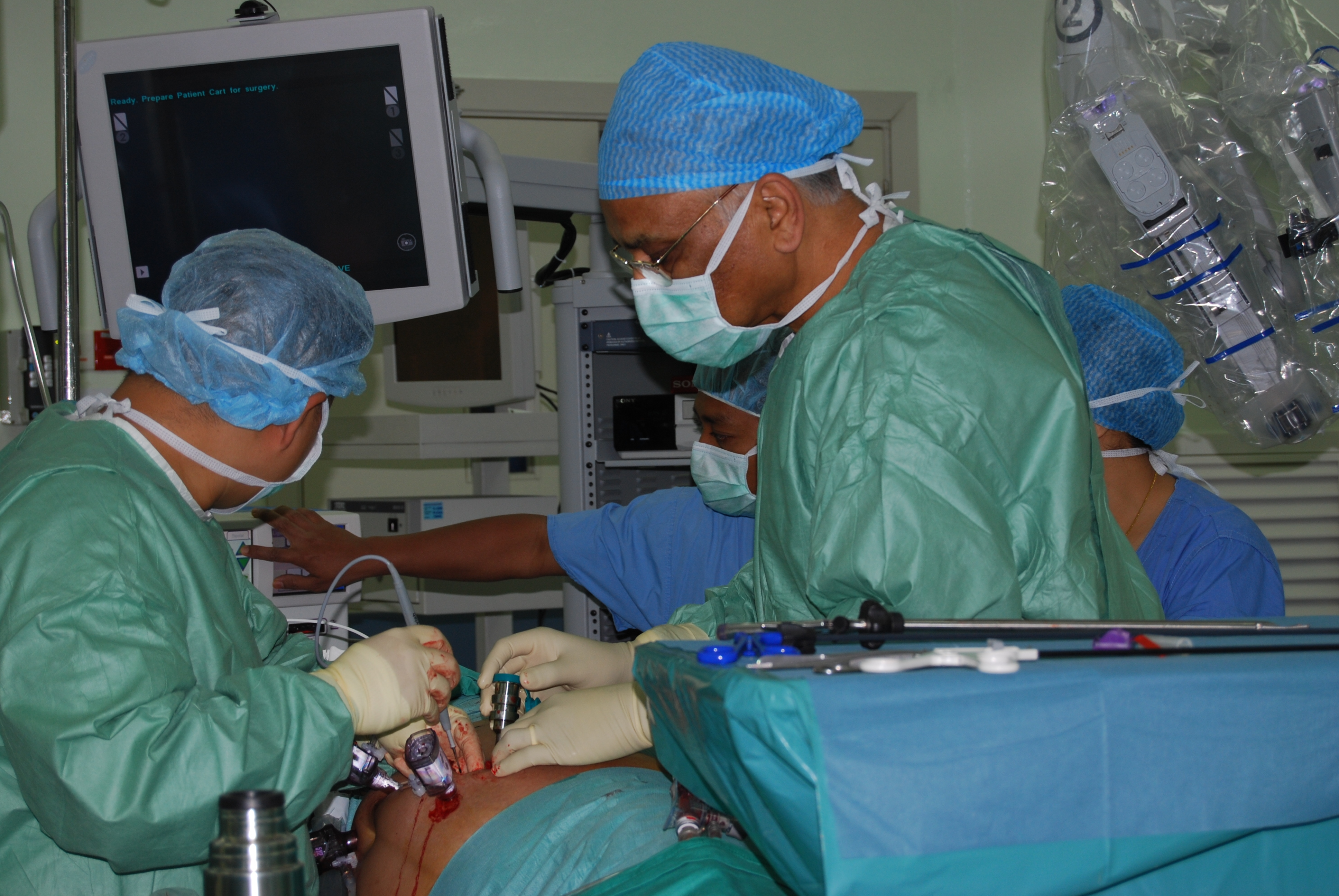 The famous surgeon Bhandari does his work